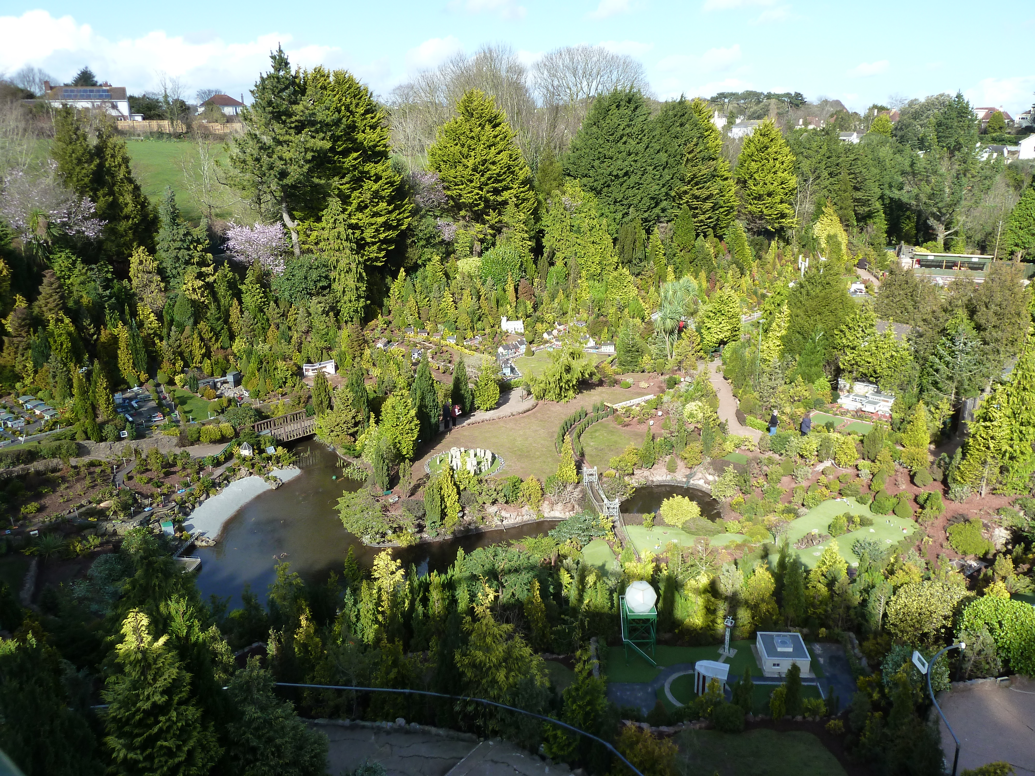 Babbacombe miniature model village in Torquay as seen in March 2012.